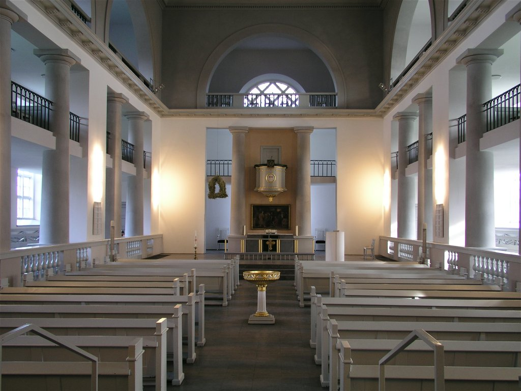 Interior of the Vicelin-church of Neumünster, Schleswig-Holstein, Germany